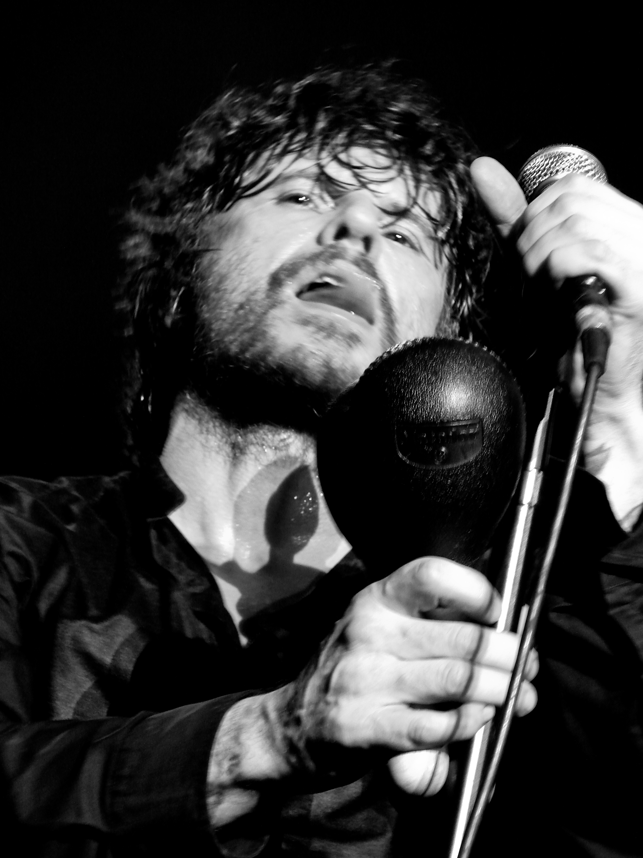 Ian Asbury on Stage in Antwerp